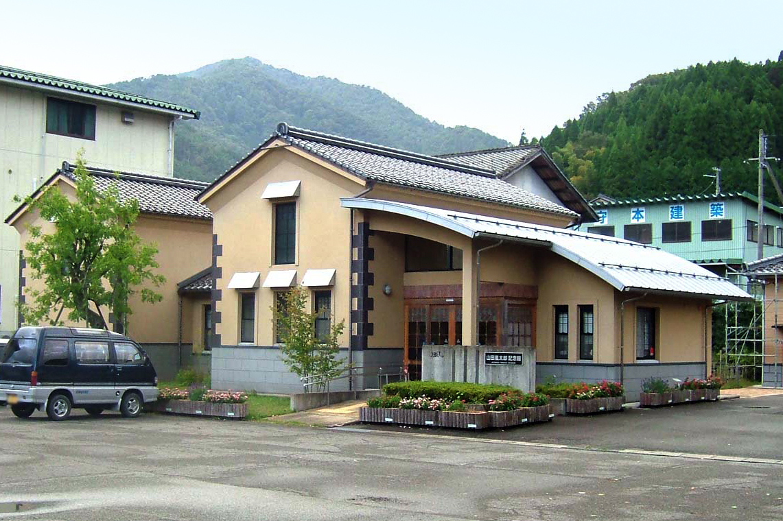 Futaro_Yamada_Museum in Yabu, Hyogo prefecture, Japan.